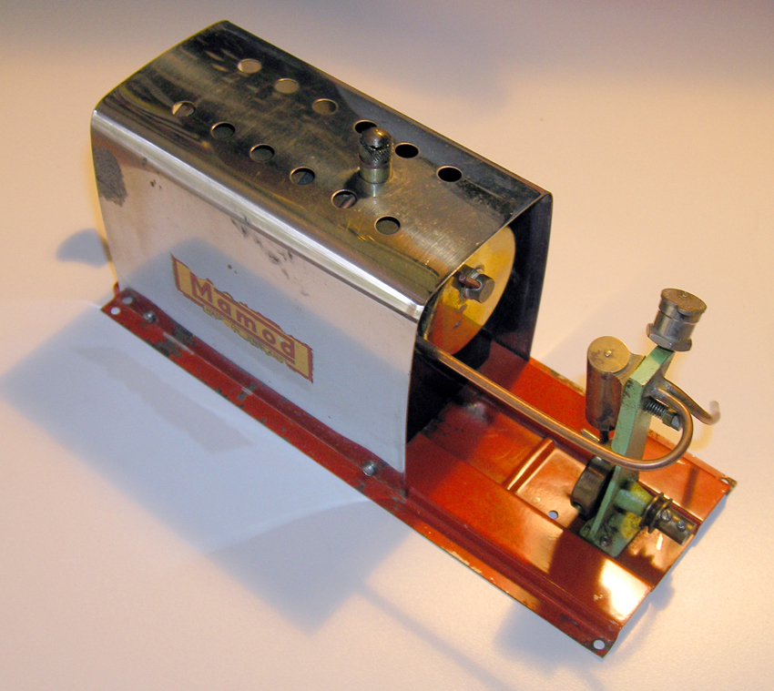 A studio shot of a near mint Mamod ME2 marine steam engine unit